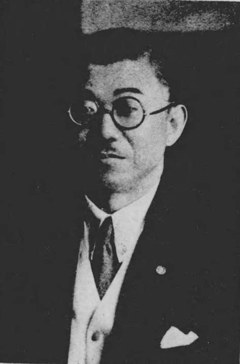 赤土 正強